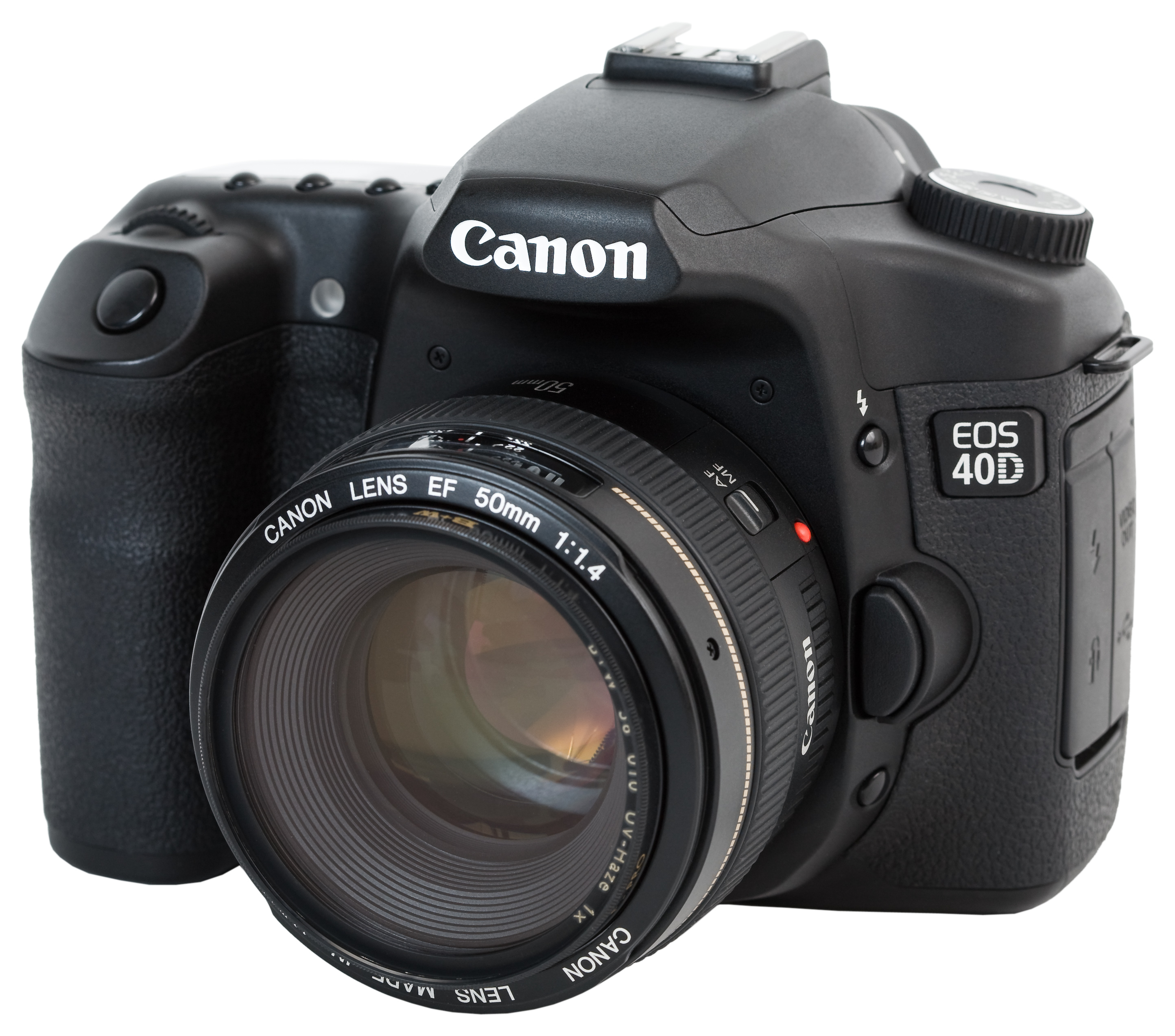 Canon EOS 40D camera with EF 50mm f/1.4 USM lens (fitted with a 58mm B+W UV (non-MRC) filter).